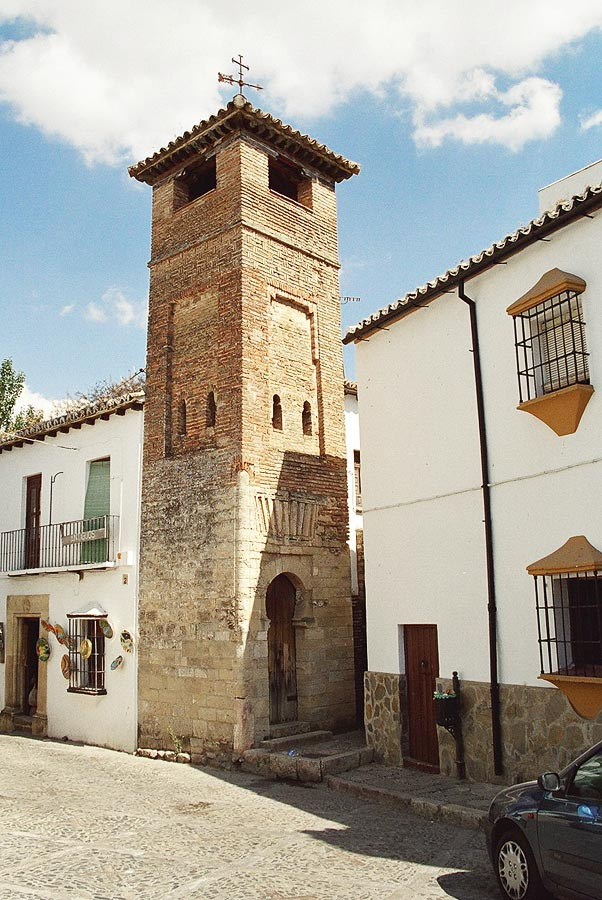 Alminar de San Sebastián - an old moorish minaret, expanded as a belltower after the "Reconquista" of Al-Andalus by the catholic kings of Spain.